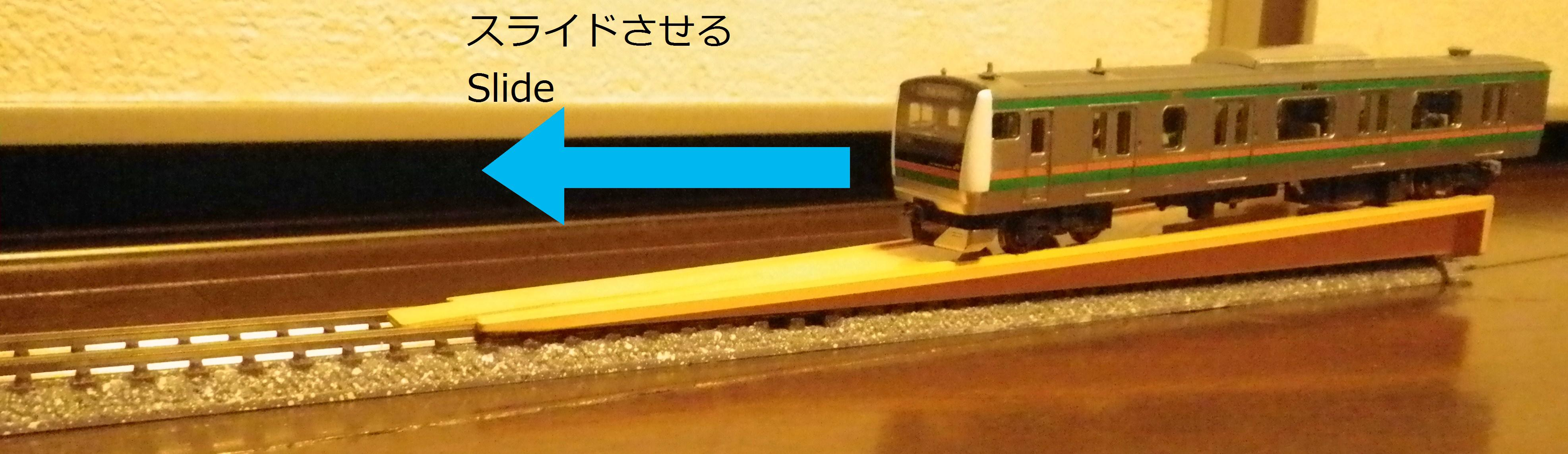 It is a photograph of the usage of "Rerailer" (one to assist the model train set to be put on the rail). (made of TOMIX)